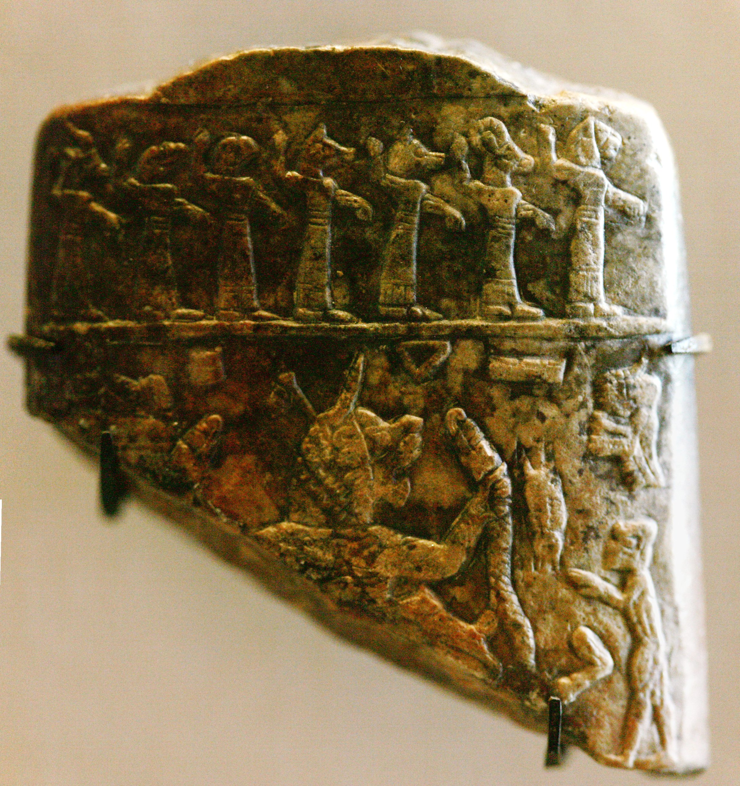 ArtistUnknownDescription Protection plaque against Lamashtu [1] Dimensions7 cm high, 6.40 cm wide, 2.30 deepCurrent location (Inventory)Louvre Museum Native nameMusée du LouvreLocationParisCoordinates48° 51′ 37″ N, 2° 20′ 15″ E Established1793Website control : Q19675 VIAF: 257711507 ISNI: 0000 0001 2260 177X ULAN: 500125189 LCCN: n80020283 NLA: 35912436 WorldCat Richelieu, Rez-de-chaussée, Mésopotamie - Syrie du Nord. Assyrie : Til Barsip, Arslan Tash, Nimrud, Ninive, Salle 6. Dislay 4.Accession numberAO 7088Credit lineBought in 1917Source/PhotographerRama Protection plaque against Lamashtu [1]